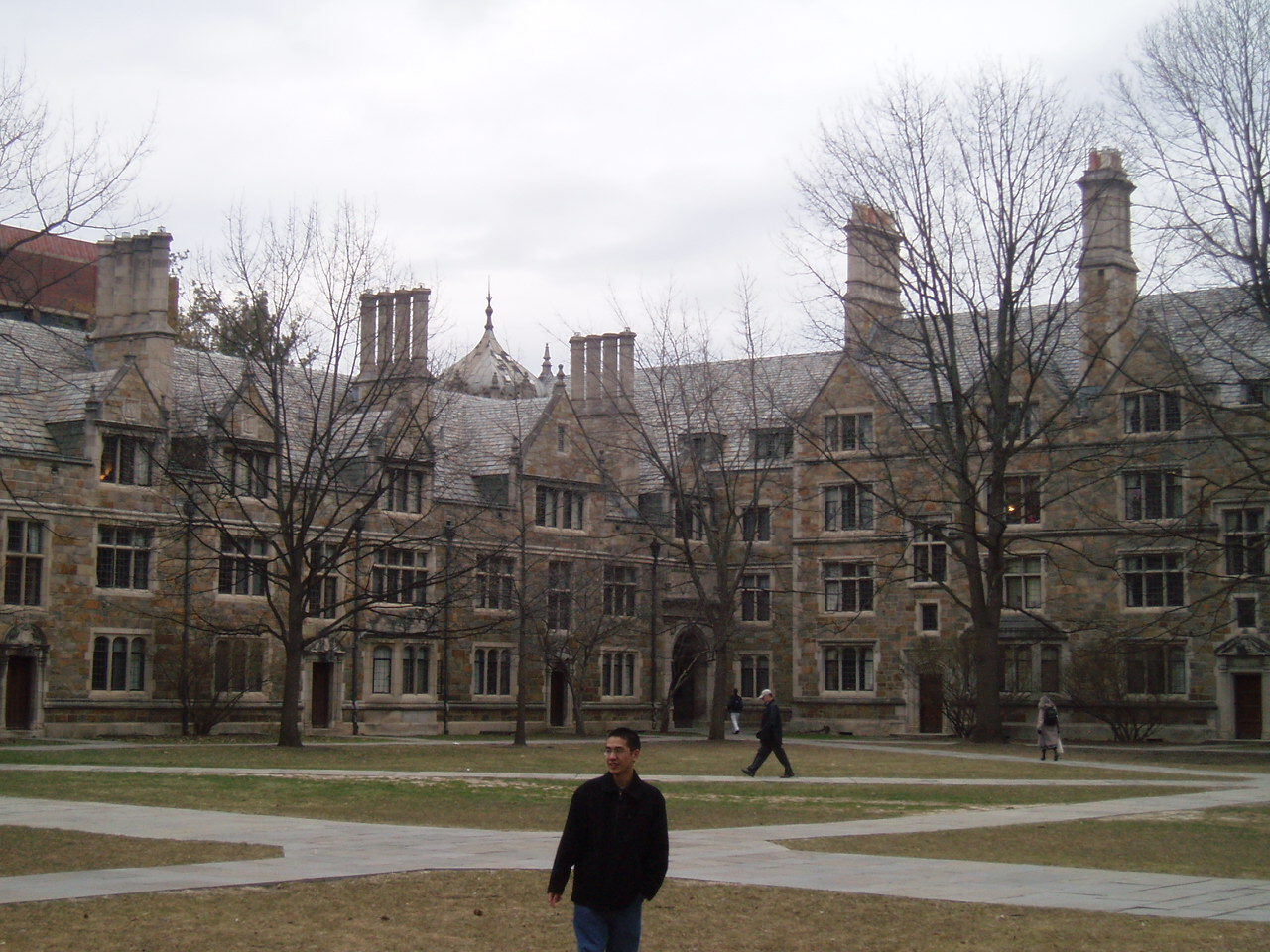 View across the Quad of the Lawyer's Club dorms at the University of Michigan Law School.